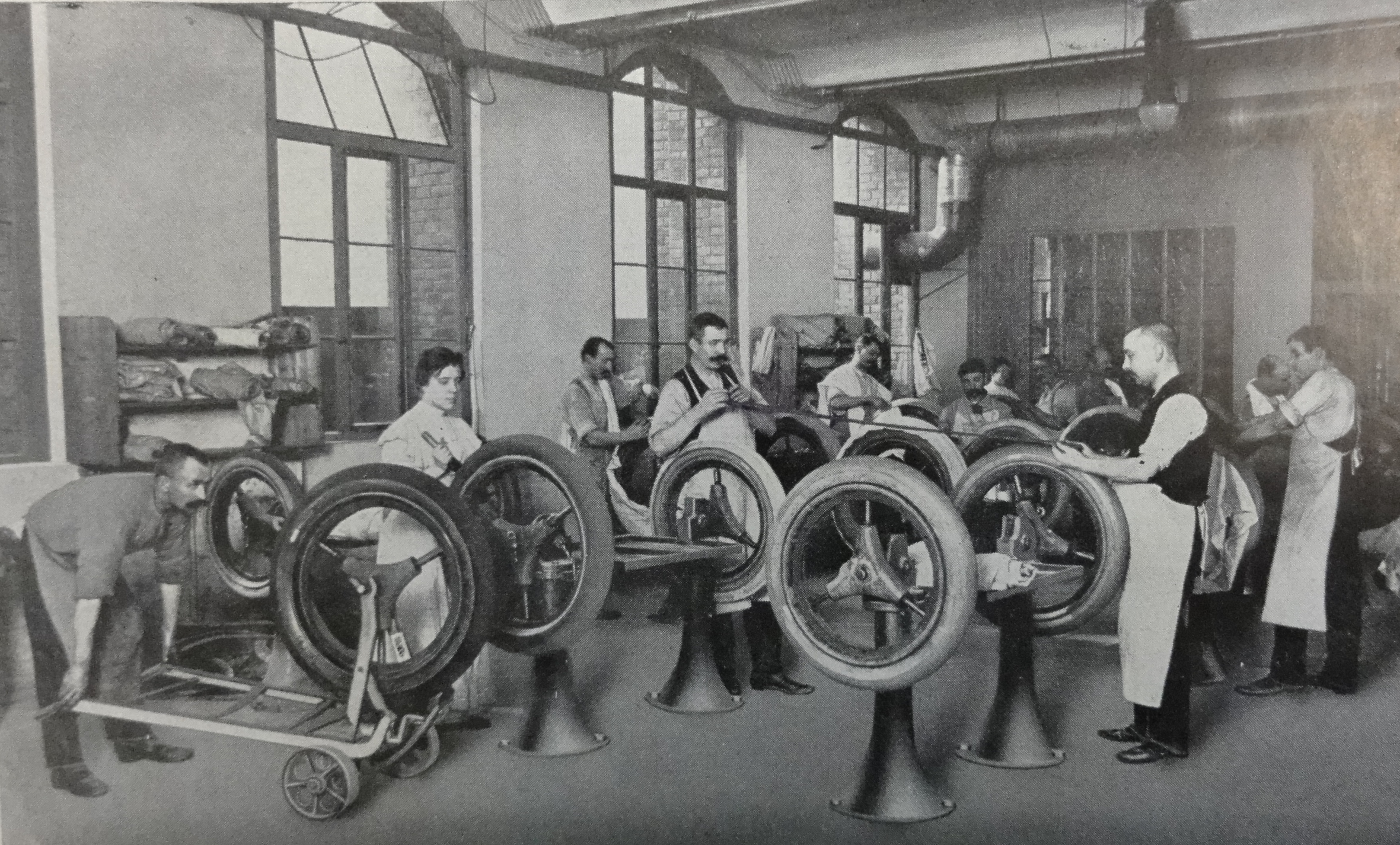 Hannover Gummiwerk Excelsior, production of tyres for vehicles 1912